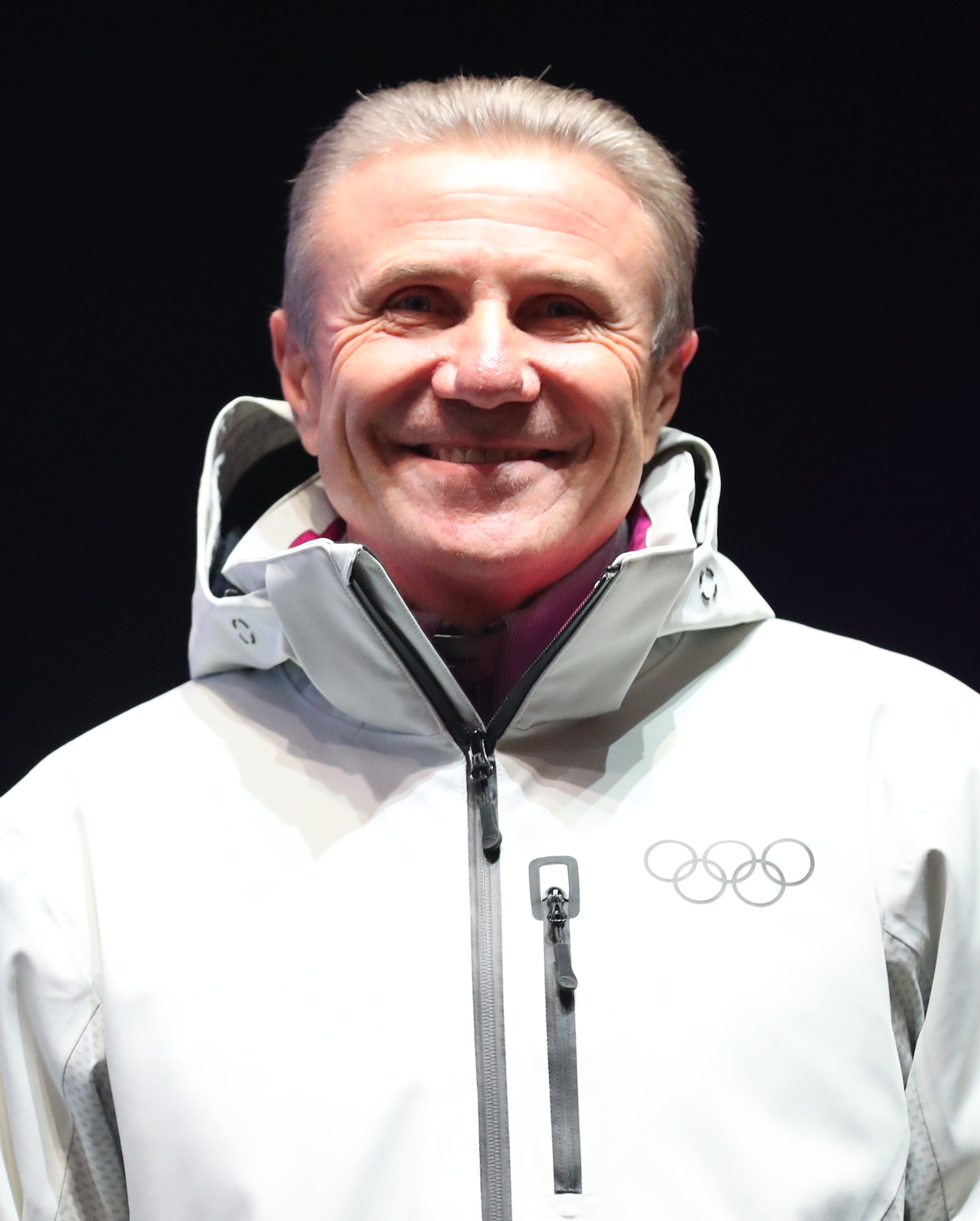 Medal Ceremony Day 6, 2020 Winter Youth Olympics in Lausanne